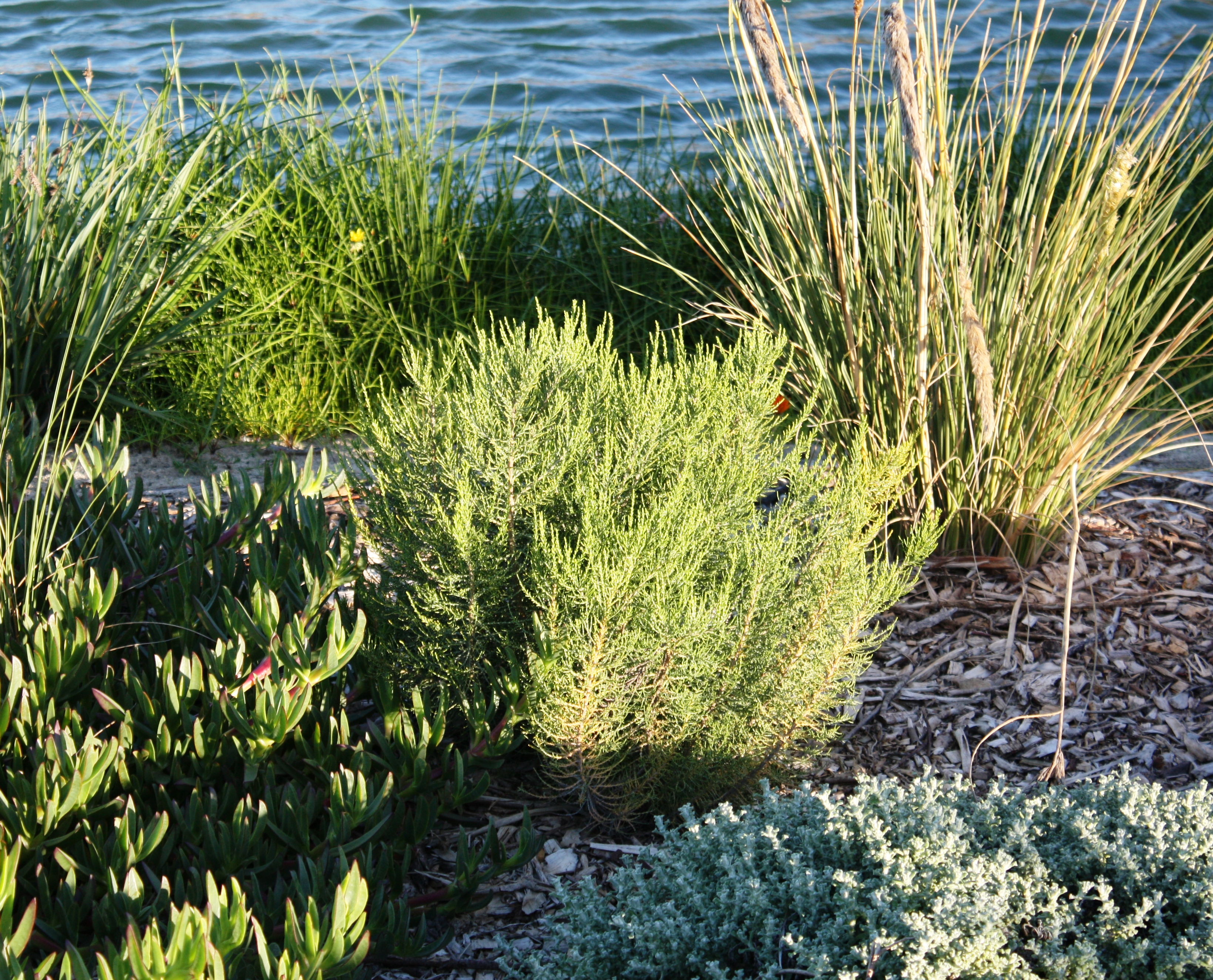 Renosterbos in cultivation in an indigenous arid garden soon after planting. Cape Town.